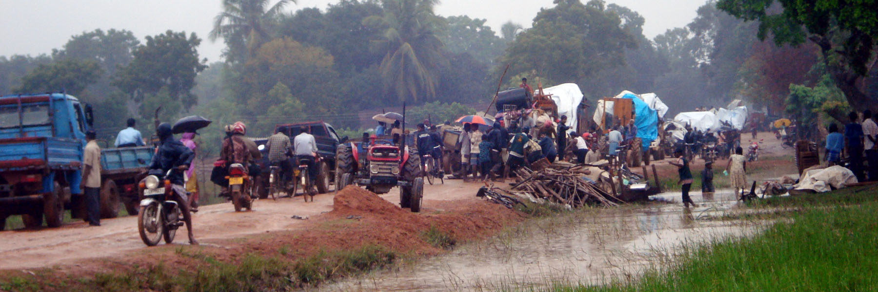 Original caption: Civilians are being displaced from parts of Kilinochchi and Mullaitivu Districts as a result of the Sri Lanka Army's military offensive. There are 350,000 displaced persons in the Vanni. The Govt of SL ordered the UN & international NGOs to leave the area in Sept 2008